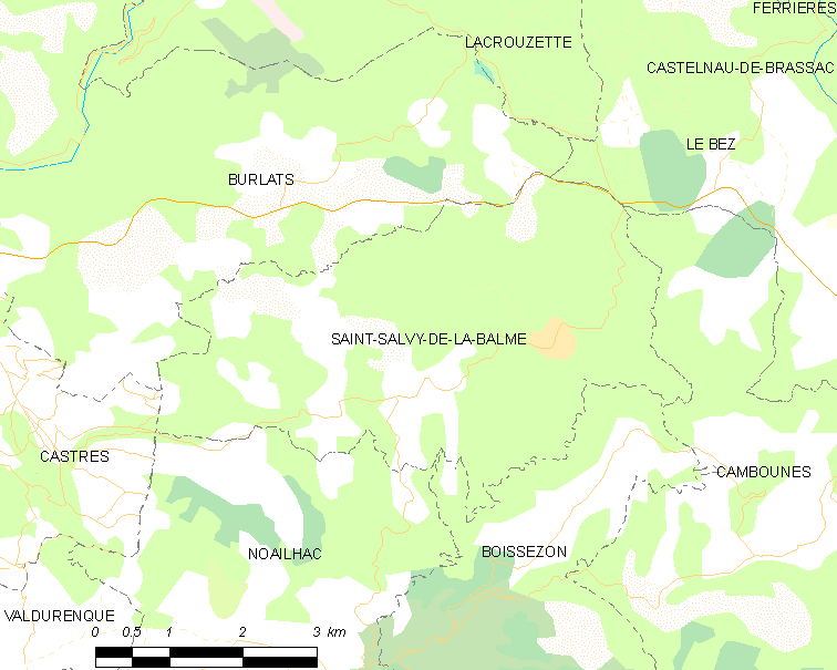 Map of French municipality Saint-Salvy-de-la-Balme